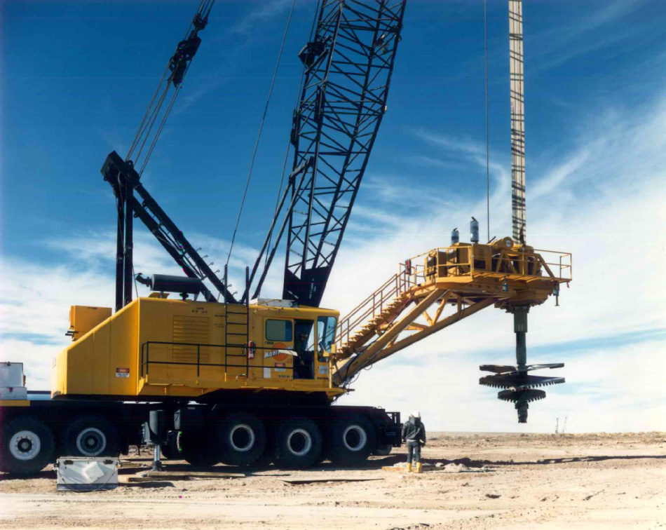 This equipment at the U.S. Department of Energy’s Nevada Test Site is capable of augering soil down to a depth of 150 feet. Here it is suspended from a 150 ton crane. The rotary auger is driven by two separate motors suspended from the raised platform. It is used to start some vertical bore holes from underground nuclear tests.